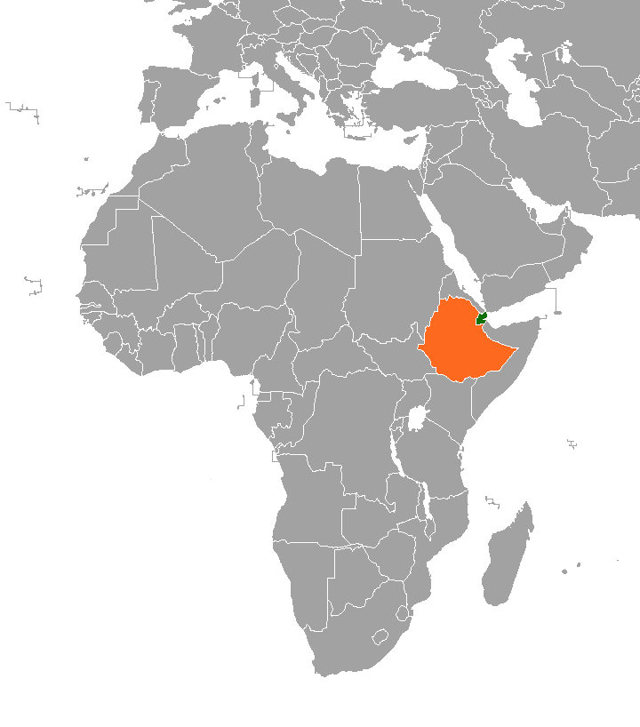 Map showing the locations of both Djibouti and Ethiopia